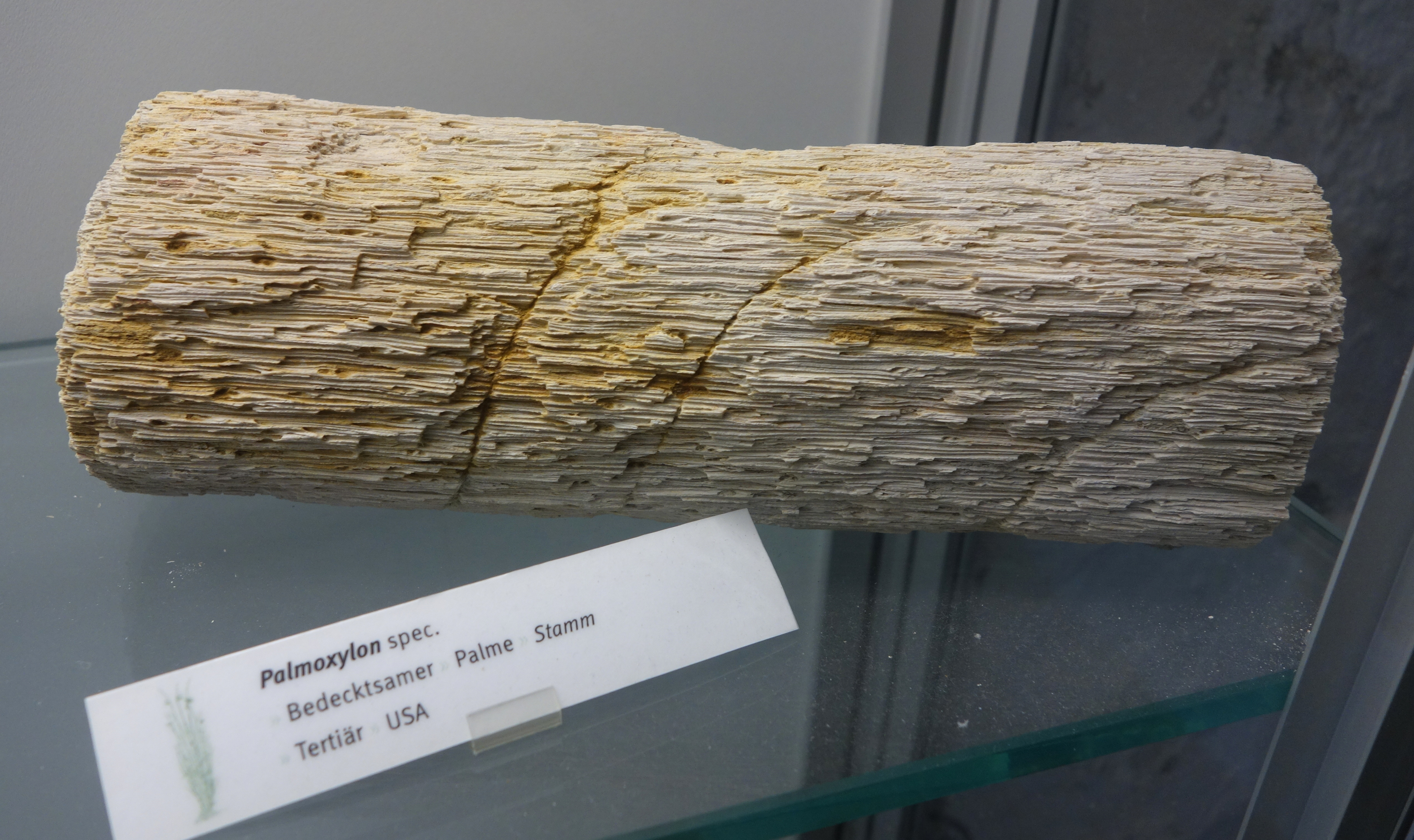 Fossil specimen in the Botanischer Garten, Dresden, Germany. Photography was permitted in the botanical garden without restriction.